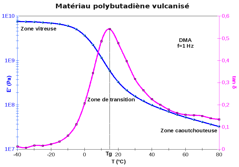 Simplified version of File:DMA rubber.gif shown below. Variation of the storage modulus (which characterizes the stiffness of a viscoelastic material), E', and loss factor, tangent delta, with temperature. Material based on vulcanized polybutadienes (code: BR). Composition: blend of solid and semi-liquid BR, fillers, vulcanization system, additives, etc.; sealant vulcanized for ~30 min at ~180 °C. Technique used: DMA, tension-compression at constant frequency f = 1 Hz; stabilized temperature. For the final product (cured), at 1 Hz: Tg ~15 °C and E' ~250 MPa at 23 °C. This elastomeric sealant for automobiles is a good damping of vibrations around the ambient temperature at 1 Hz because the damping (or loss) factor is greater than 0.2 between 10 and 30 °C.